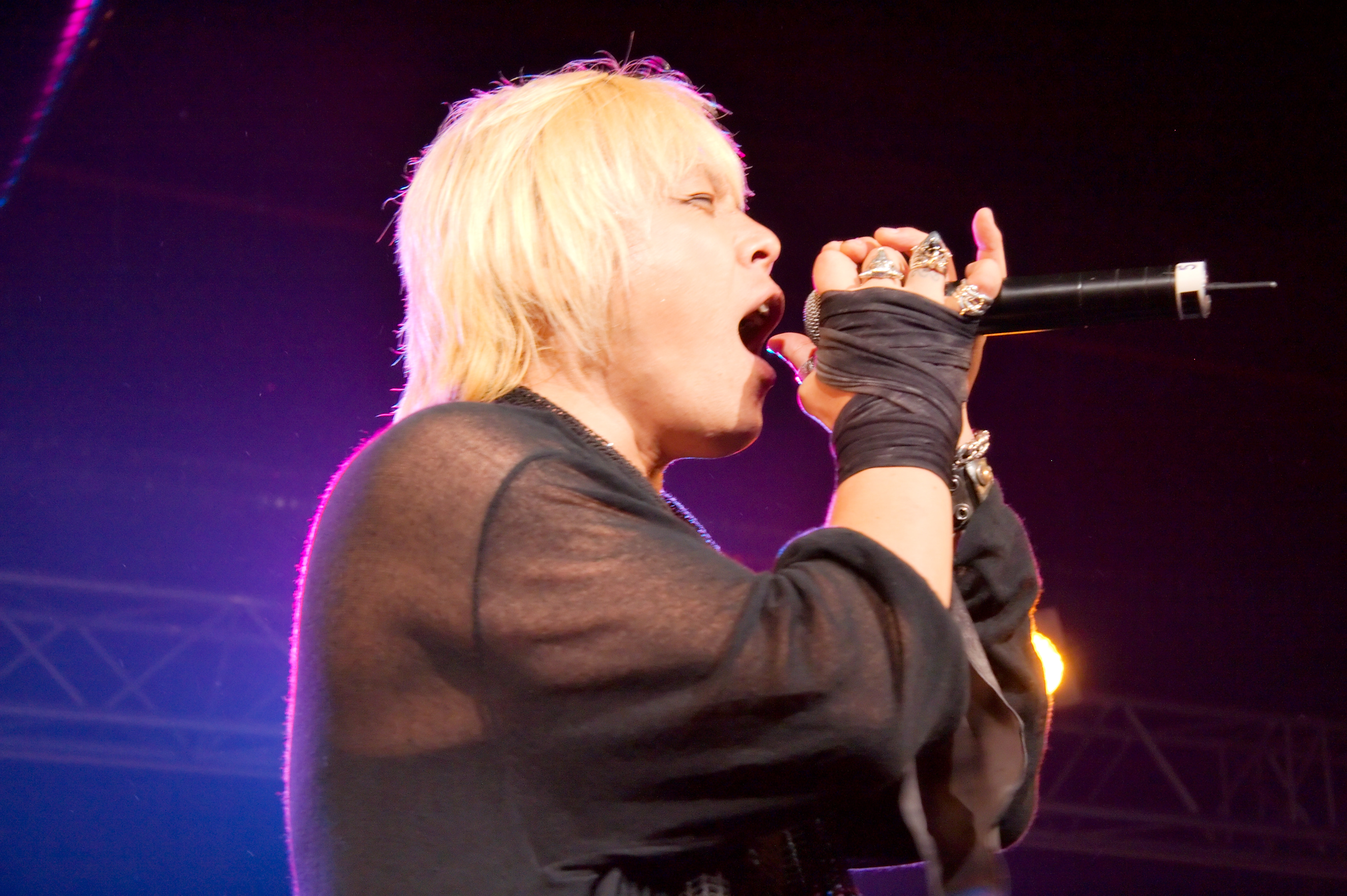 JAM Project live at Chibi Japan Expo 2008 (Paris, France).